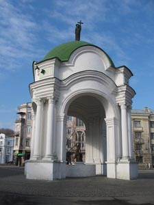 Reconstructed Fountain of Samson in Kiev